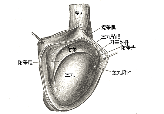 右侧睾丸，打开睾丸鞘膜。 Anatomy of the Human Body